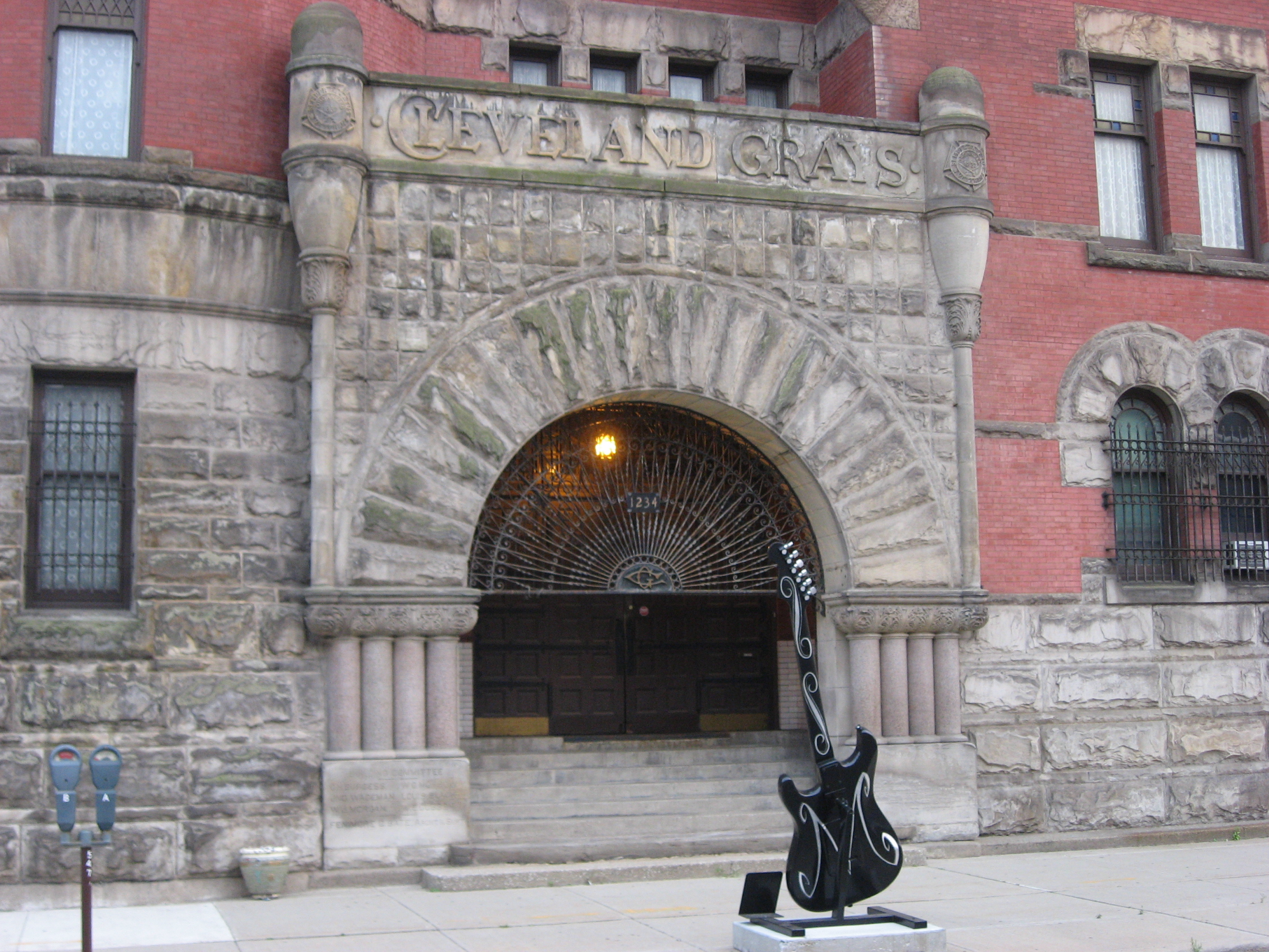 View of the entrance to the Cleveland Grays Armory, a National Register of Historic Places site at 1234 Bolivar Road east of downtown Cleveland, Ohio, United States.